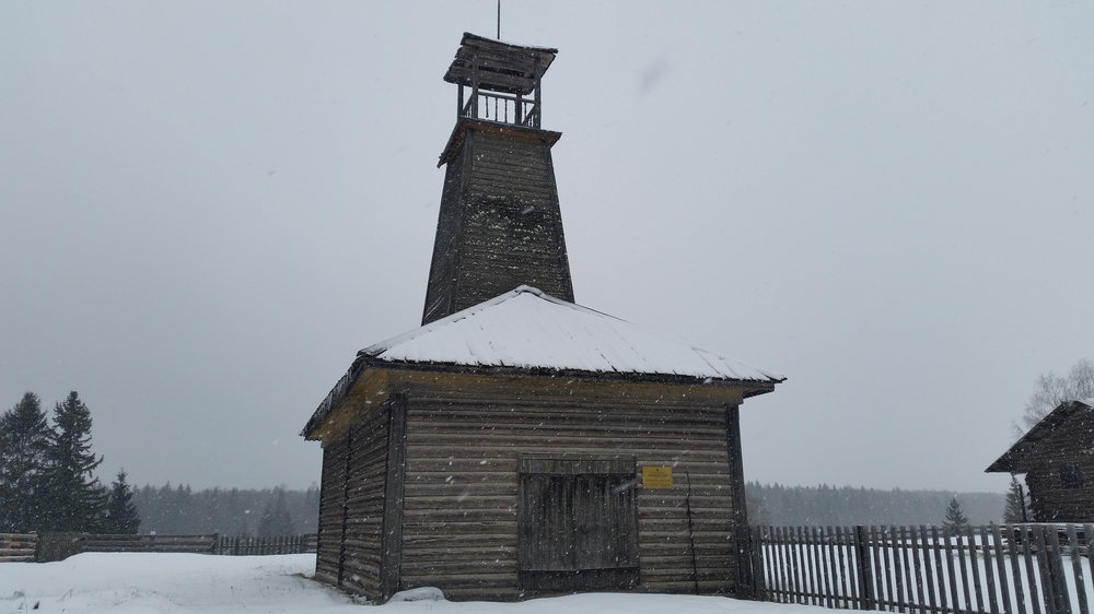 Пожарная каланча деревня Березник Вельского района Архангельской области